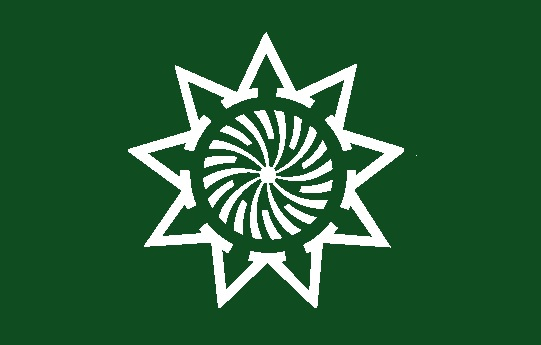 Flag of Kumatori Osaka